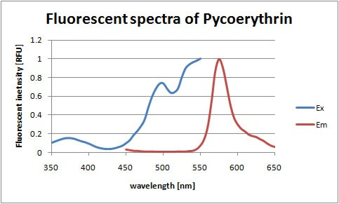 fluorescent spectra of phycoerythrin